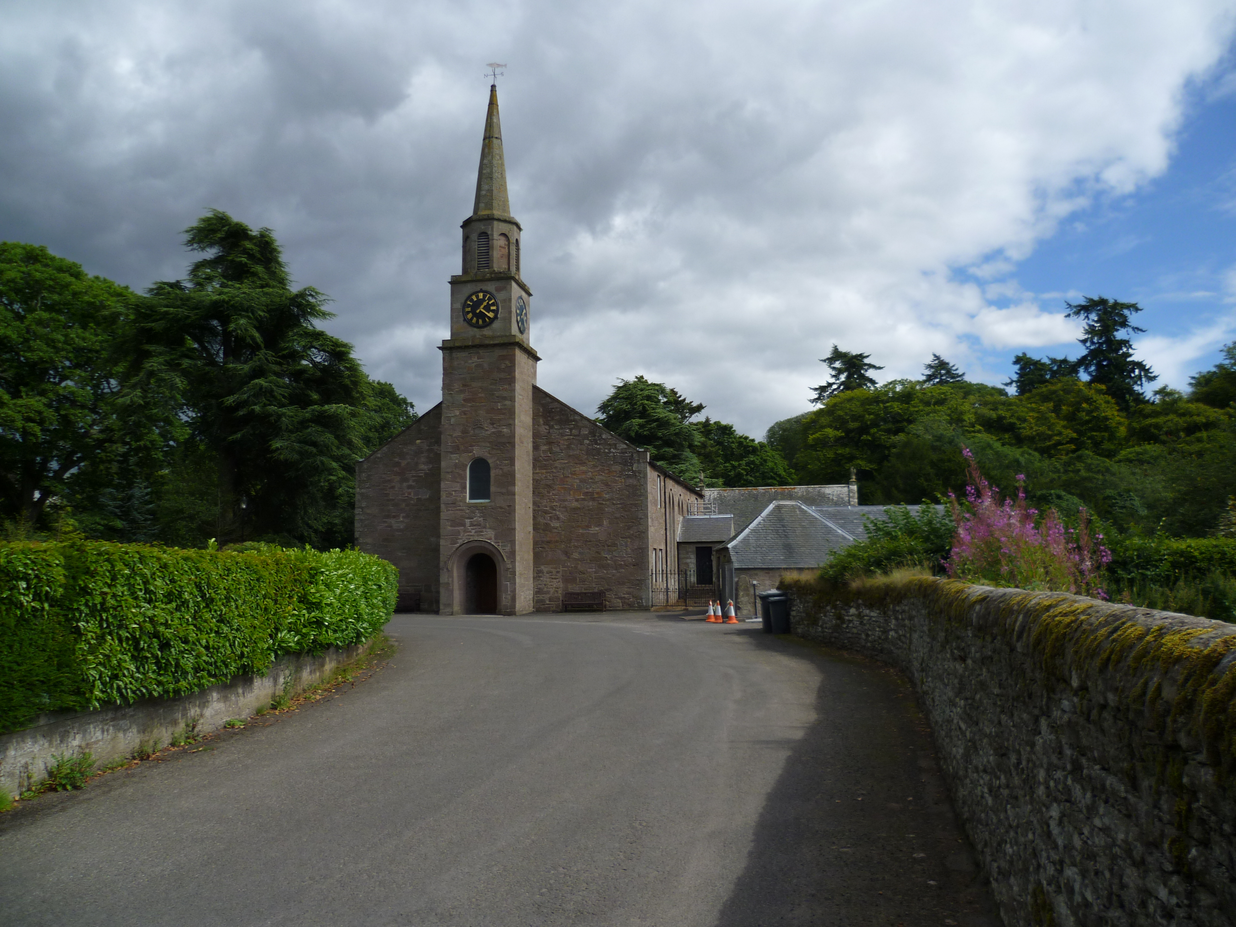 St Fergus parish church, Glamis, Angus, Scotland, 18/8/2010. Gàidhlig: Eaglais Naomh Fhearghais, Glamais, 18/8/2010.